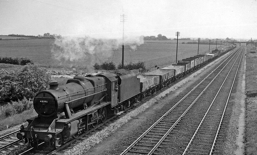 Down empties south of Sileby. View SE, towards Leicester and London; ex-Midland Main line, London St Pancras - Leicester - Sheffield etc. - a line very busy with freight back in 1962. The train is a typical Class J mineral empties, probably from Brent Sidings to Toton, heaed by Stanier 8F No. 48395.